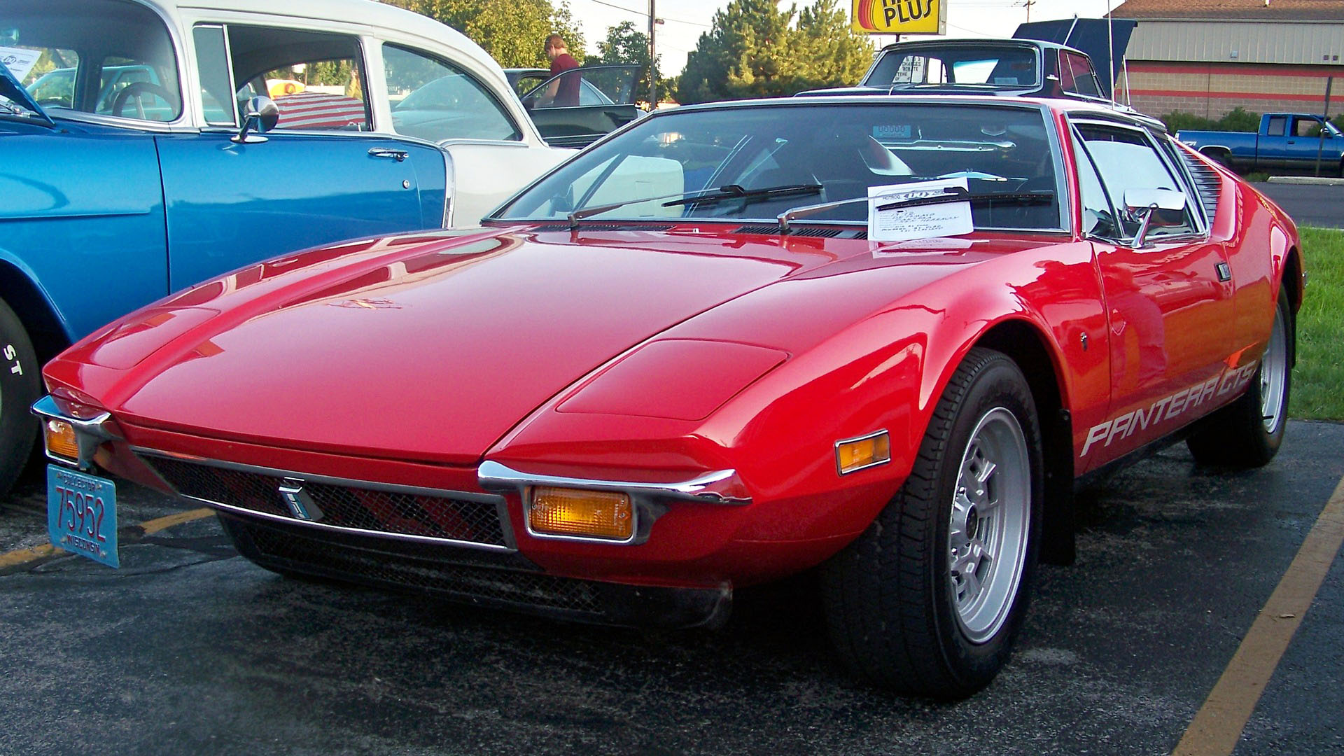 De Tomaso Pantera